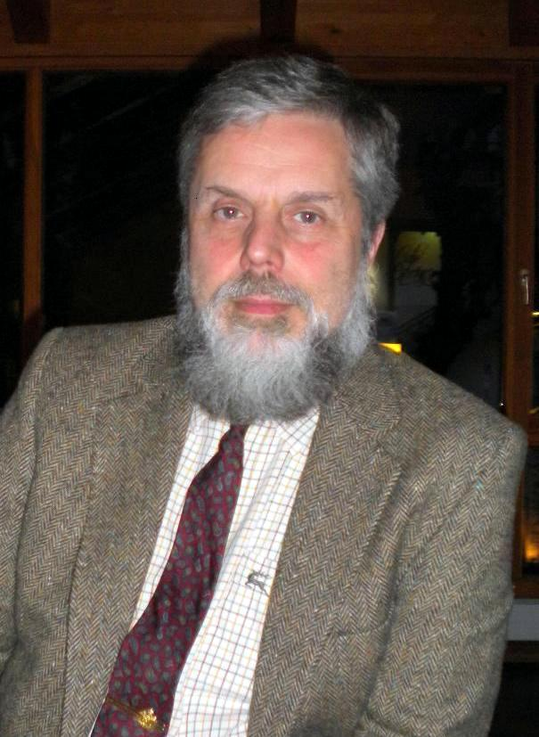 H. H. Duke Borwin of Mecklenburg, as released by image creator Ristesson; Place: Hotel lobby in Titisee, Germany